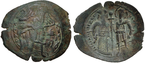 Billon trachy of John Komnenos Doukas, Emperor of Thessalonica, ca. 1237-1242. Original description: John Comnenus-Ducas. As emperor of Thessalonica, 1237-1242. BI Trachy (23mm, 1.60 g, 6h). Thessalonica mint. Four-winged angel standing facing, with arms outstretched; Λ/Λ/K/Є/Λ/O/I to left, X/V/PI/(OV)I (P retrograde) / John, holding akakia, and St. Michael, holding sword, standing facing, supporting sword between them; IωANNIC ΔЄC to left, O[AΓI M...?] to right. DOC –; CLBC 14.14.3 (R5); D. M. Metcalf, “The Peter and Paul Hoard: Bulgarian and Latin imitative trachea in the time of Ivan Asen II,” NumChron (1973), 1106, pl. 11, 117 = Lianta 405 (but misdescribed and with incorrect citations); SB –. VF, green-brown patina. Extremely rare.